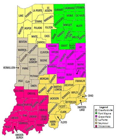 Map of Indiana Department of Transportation districts